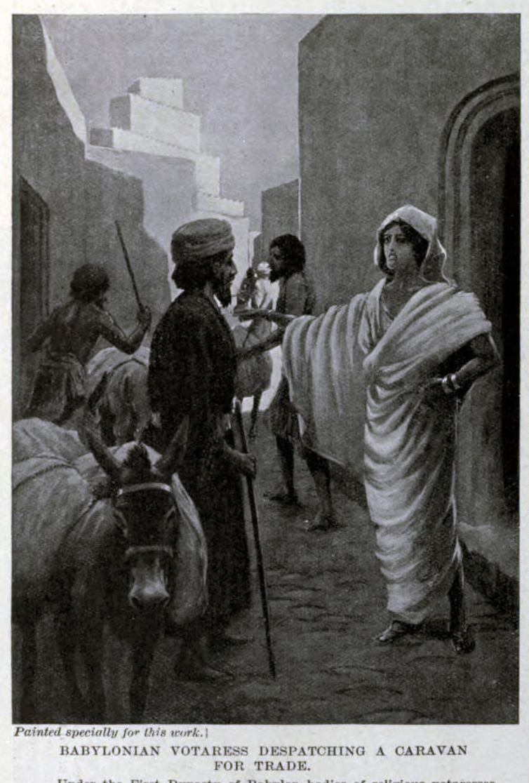 Babylonian Votaress Despatching a Caravan for Trade